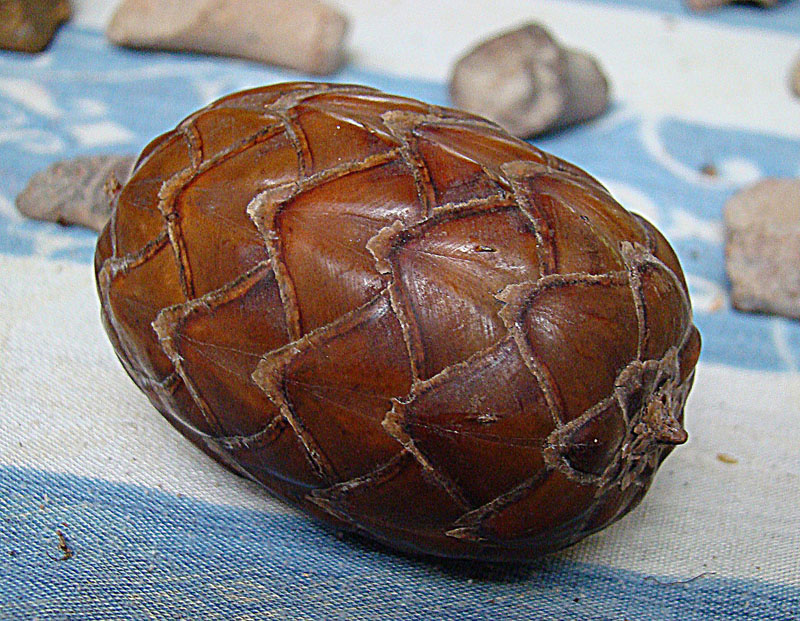 The species ranges from Nicaragua to Colombia, and is known as Yolillo. Photo from near Samara, Costa Rica. In context at